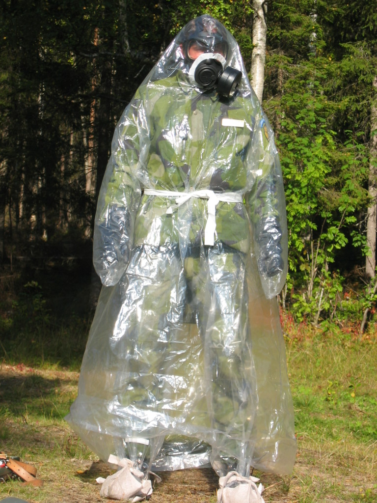 A chemical agent protective suit and a protection mask worn by a Swedish Army soldier.